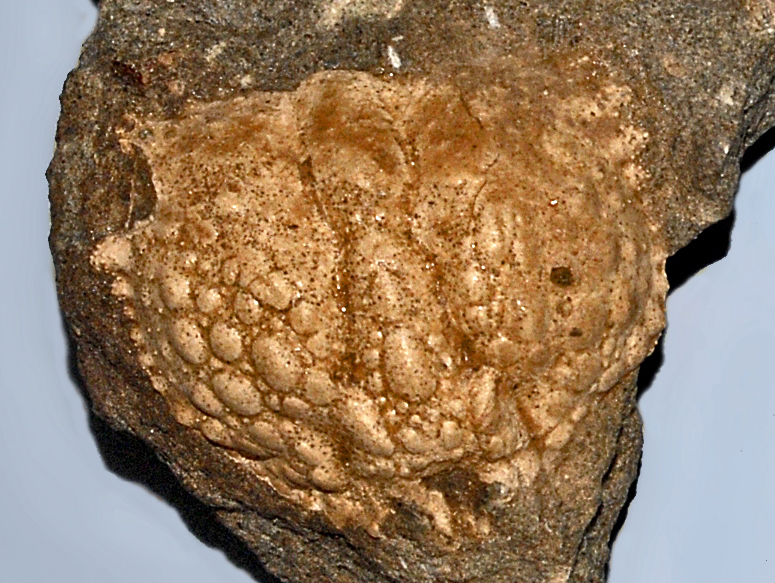 Fossil of Calappa species, on display at the Museo Paleontologico Giulio Maini, Ovada